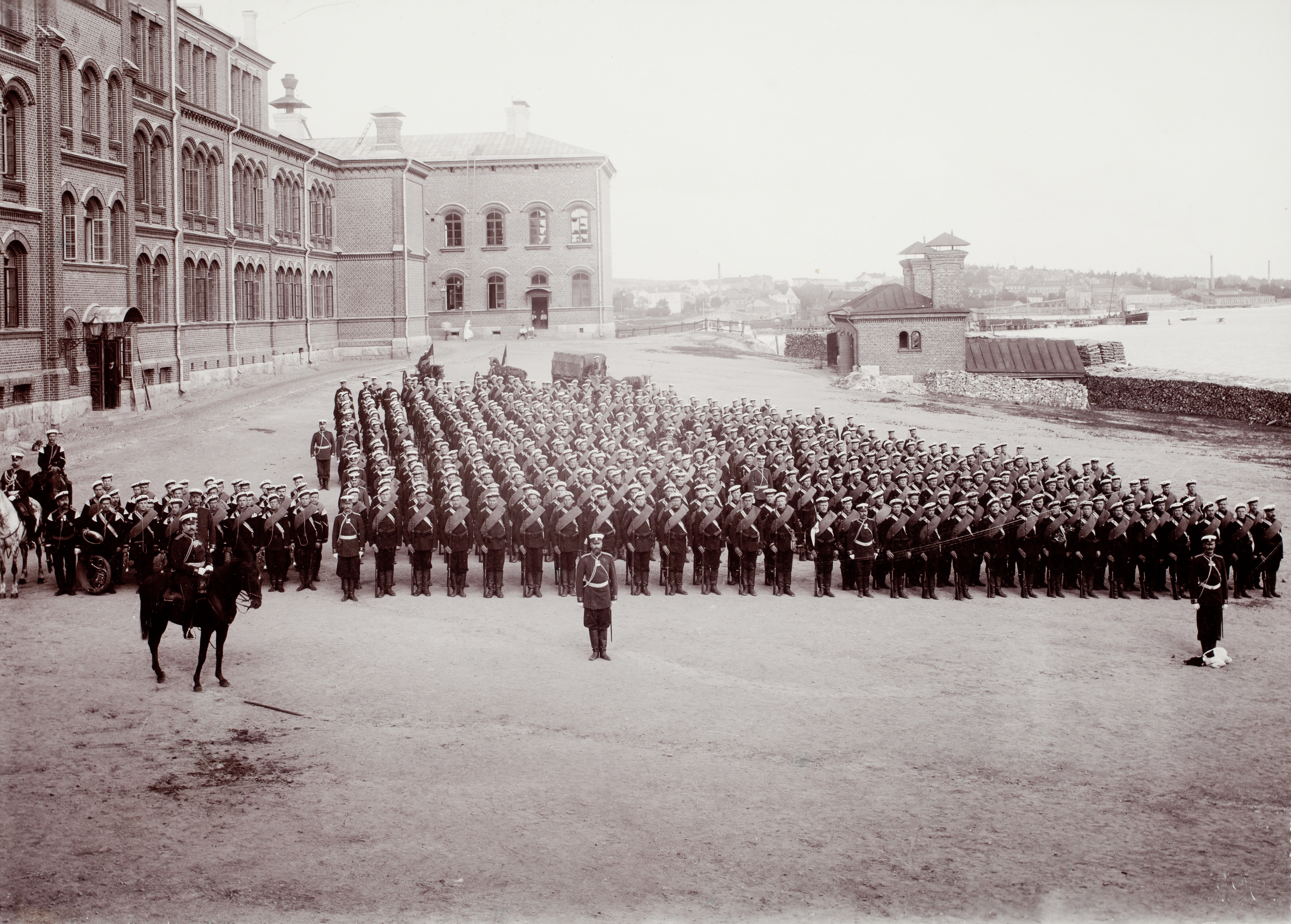 Nylands skarpskyttebataljons mönstring på paradfältet år 1901. Till vänster kasernens byggnad på Mauritzgatans sida, till höger servicebyggnader på Norra kajen. Atelier Imatra. (22X16 cm) på kartong. Foto: Atelier K. E. Ståhlberg Helsingfors, Finland Svenska litteratursällskapet i Finland